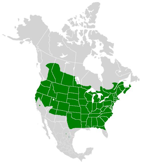 A range map showing the distribution of the Common Wood-Nymph (Cercyonis pegala)